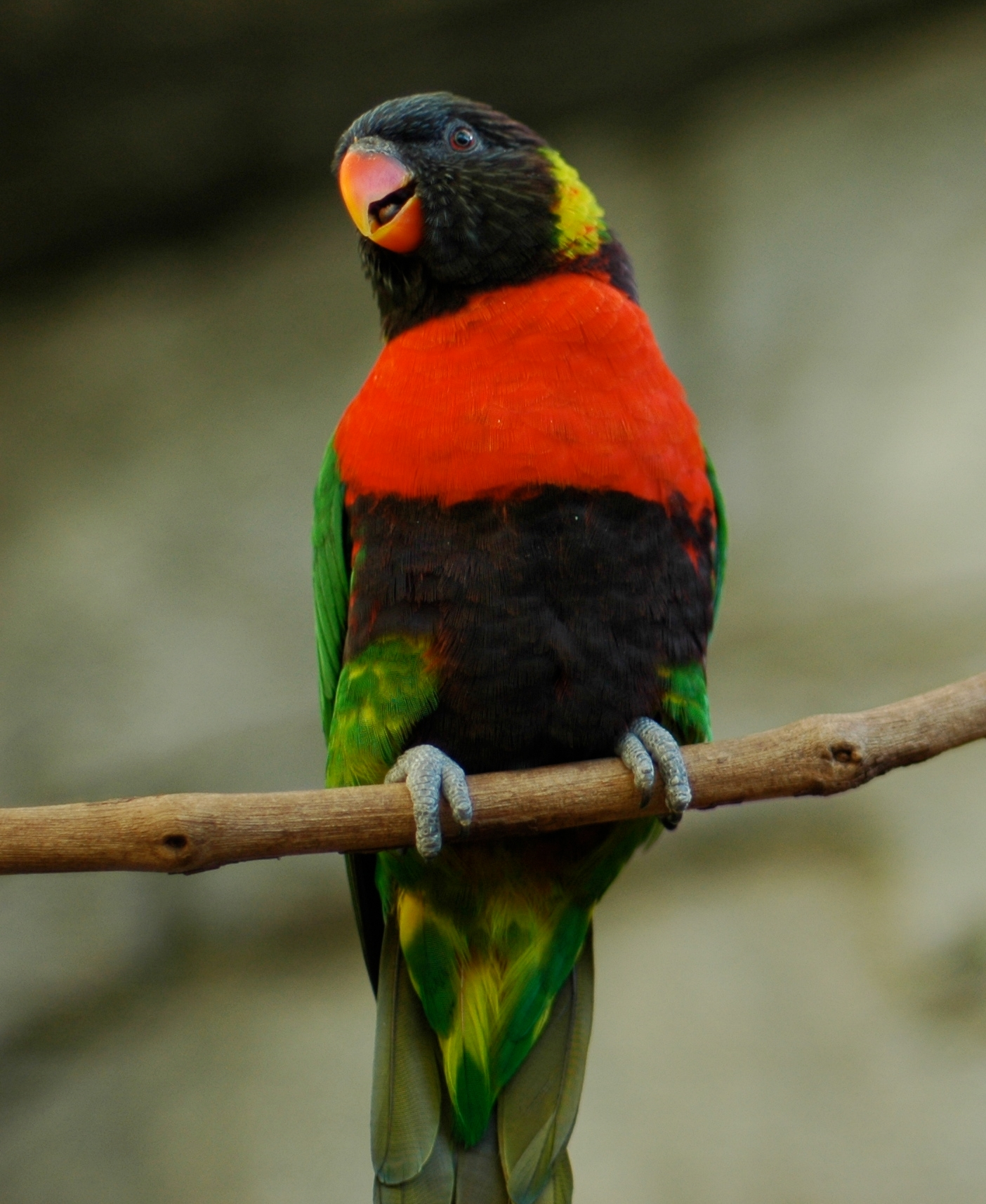 Two Rainbow Lorikeets at Newport Aquarium. This subspecies of the Rainbow Lorikeet is also called Forsten's Lorikeet